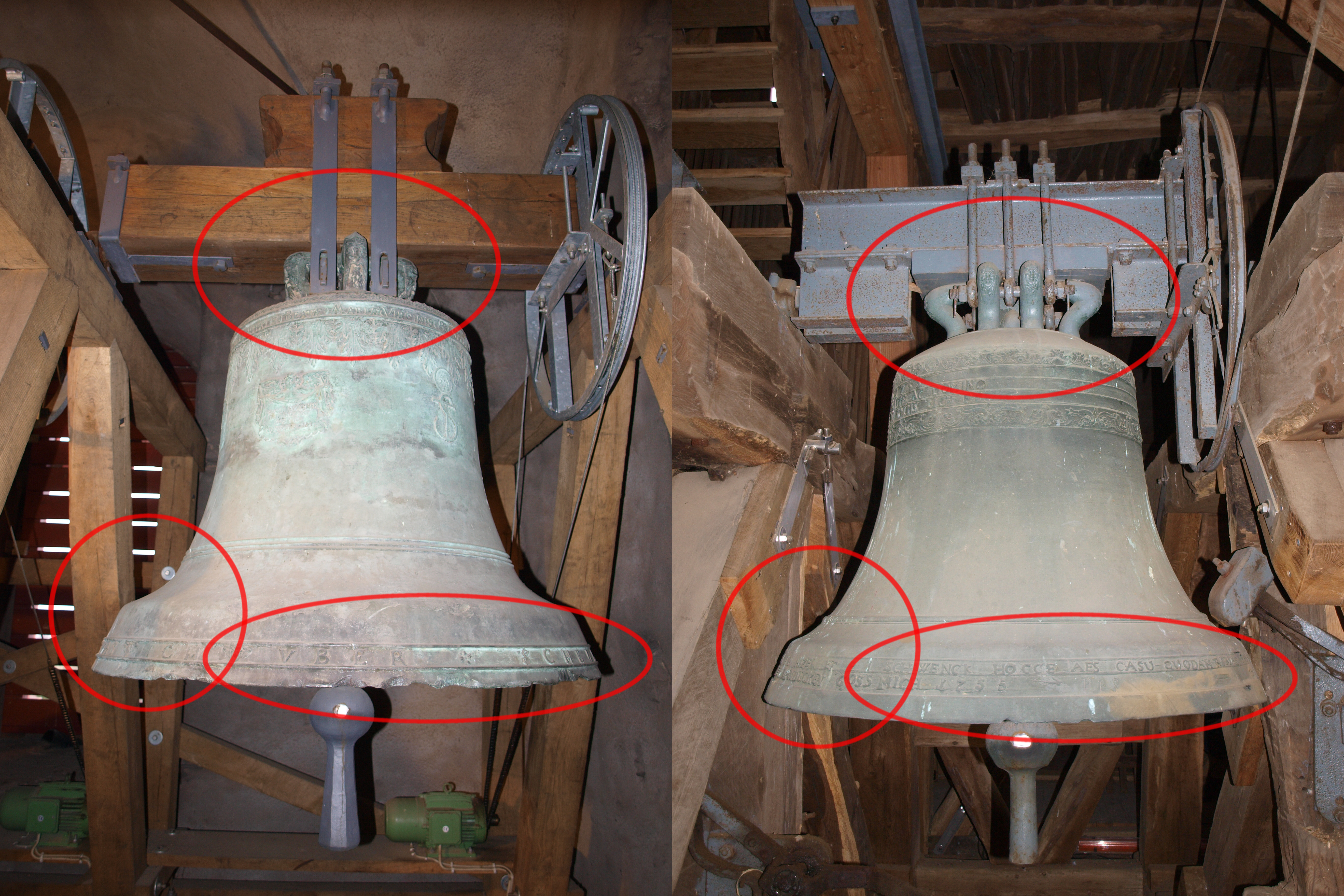 Comparison of two bells of Johann Wagner (Frankfurt 1655) and Johann Peter Bach (Windecken 1755) with analogies marked.